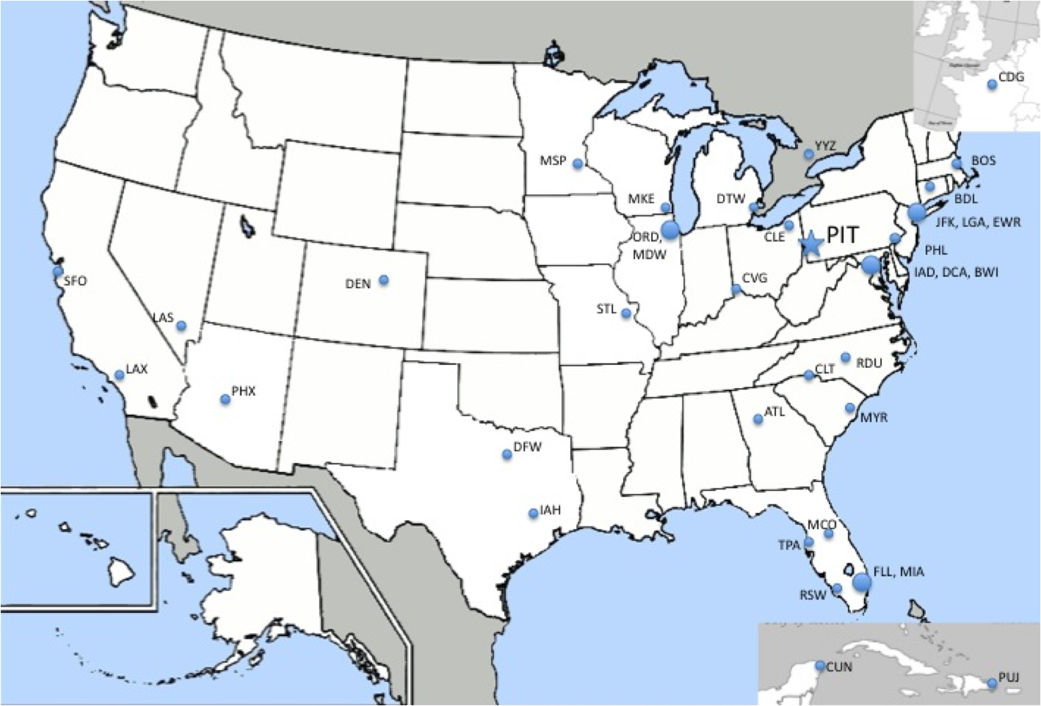 Map of destinations from Pittsburgh International Airport, as of March 2010